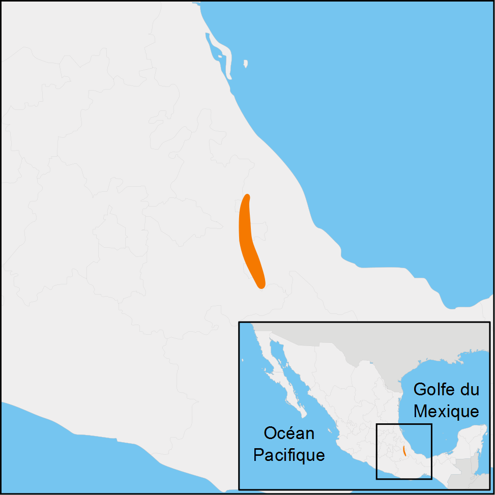 Distribution of Abronia graminea in Mexico from IUCN red list